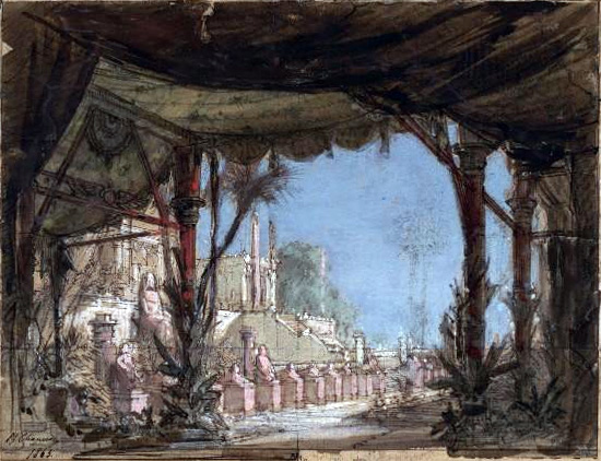 Stage design for the gardens of Didon by the shore for the premiere of Berlioz's Les Troyens à Carthage (Act 2) at the Théâtre Lyrique on 4 November 1863.